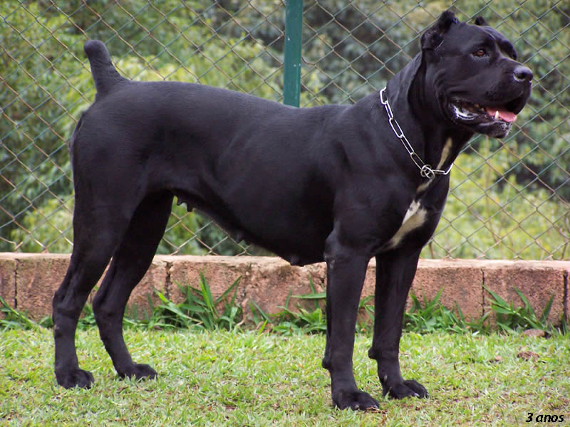 Pictures Of Cane Corso For Cane Corso Gallery @